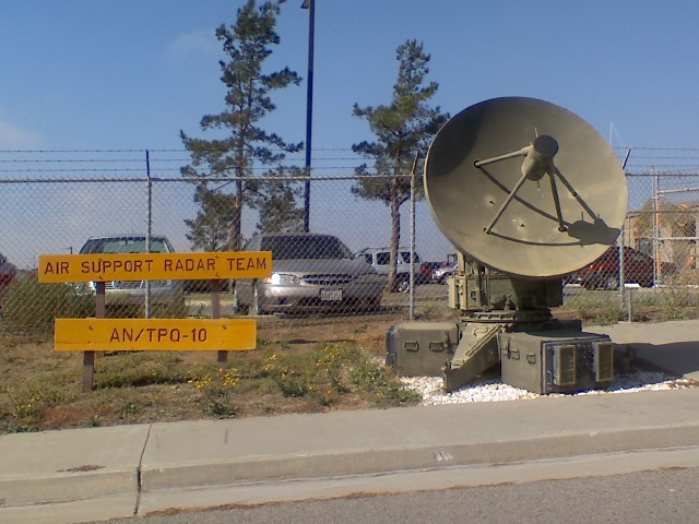 Phot taken in November 2005 of the AN/TPQ-10 Radar that site in front of the MASS-3 headquarters building on Camp Pendleton, CA